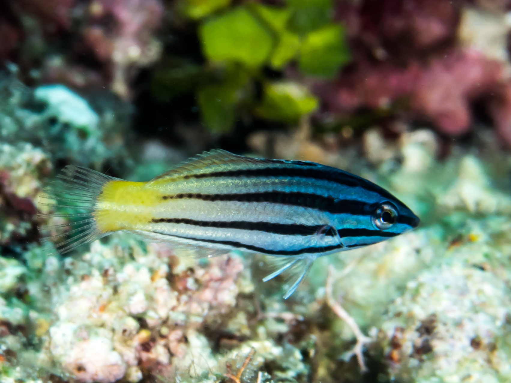 Lembeh, Indonesia - Twotone wrasse juvenile (Halichoeres prosopeion)